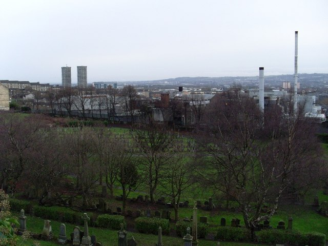 Glasgow's East End from the Necropolis Looking to Dennistoun, the Camlachie Flats, Celtic Park and Tennent Caledonian Breweries.